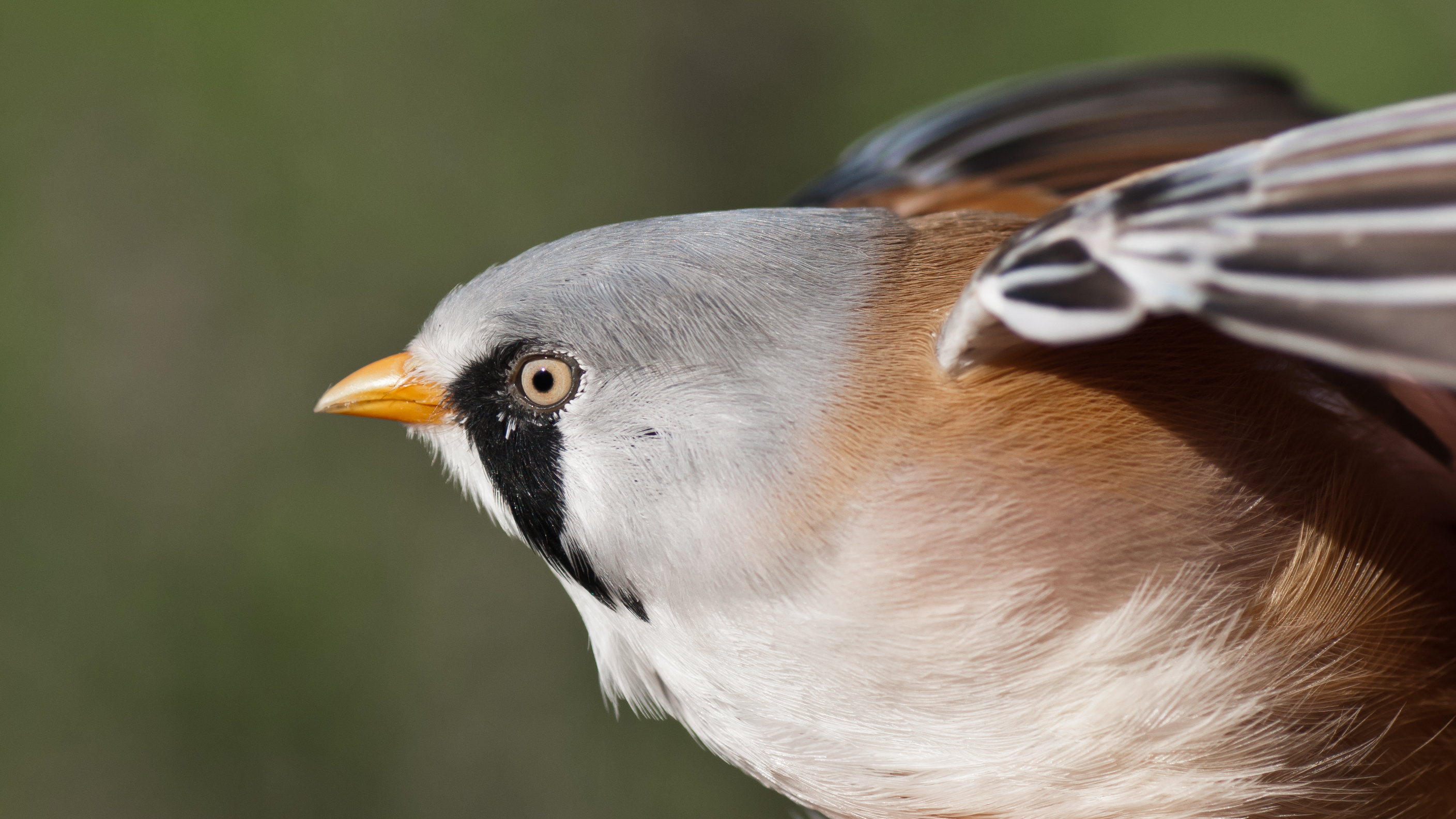 Portrait of a male Bearded Reedling (Panurus biarmicus).